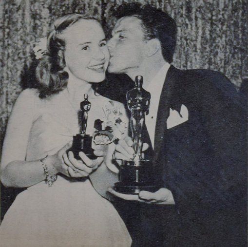 Special Awards for Peggy Ann Garner and Frank Sinatra in 1946